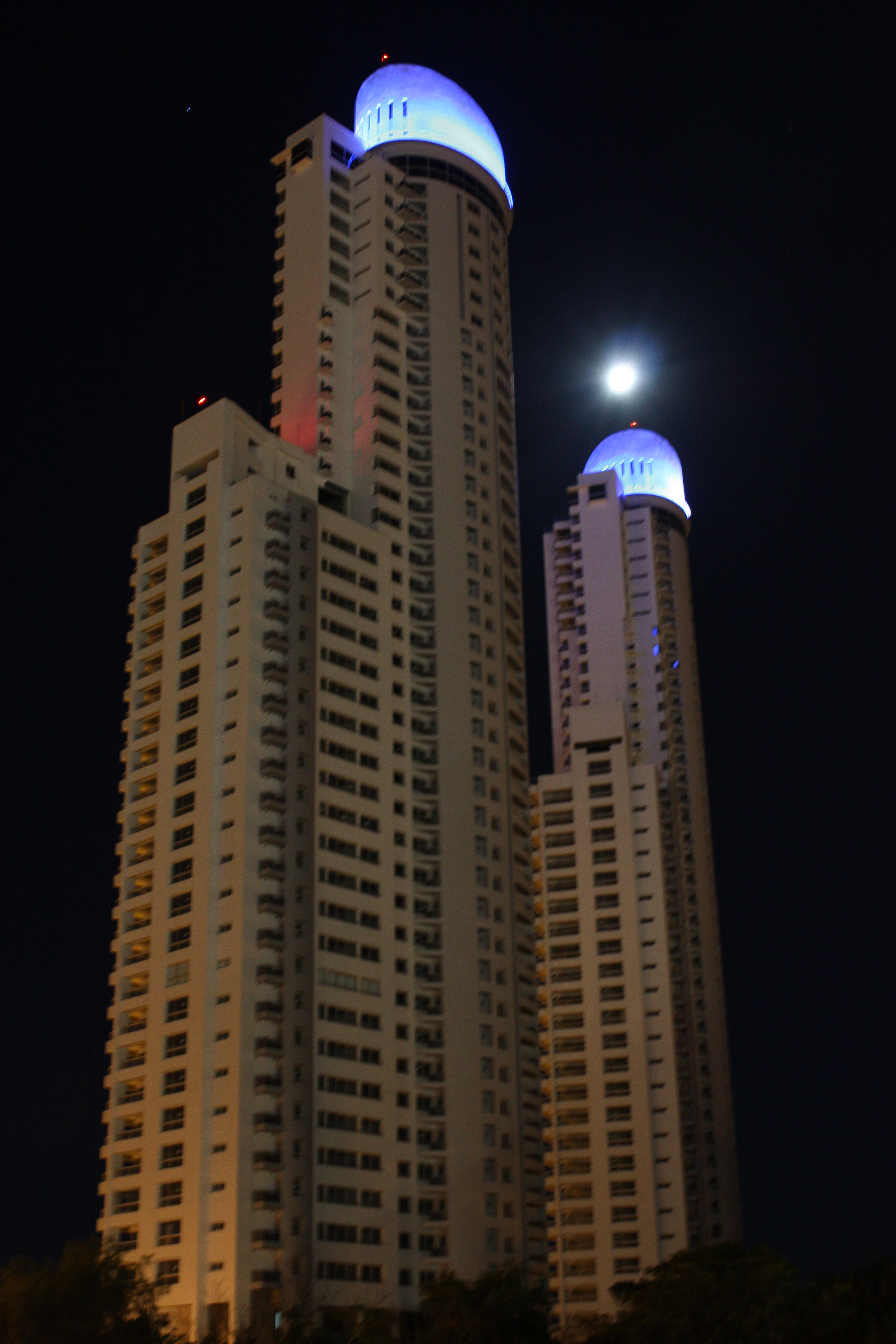 Night view of the Dolfines Guaraní towers. Rosario.